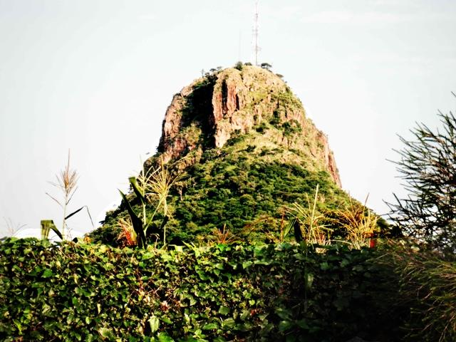 This is the significant identification feature for Tororo Town in Eastern Uganda.